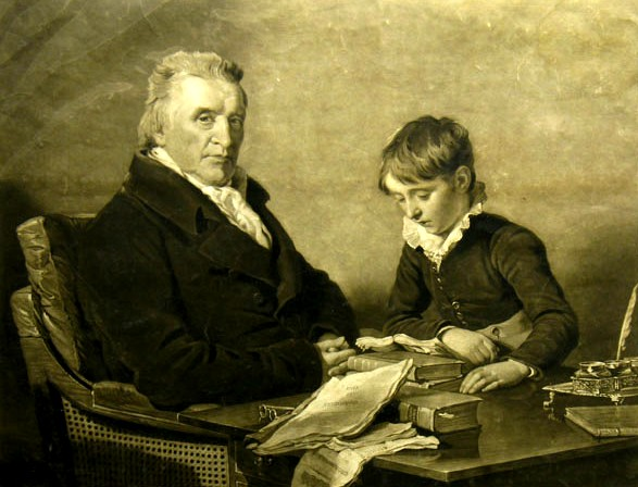 Francis Noel Clarke Mundy was born 1739. He died 23 Oct 1815 in aged 76. Francis married Elizabeth BURDETT. Elizabeth BURDETT died 2 Aug 1807. They had the following children:Francis MUNDY MP for Derby was born 29 Aug 1771 and died 1836 - He had William Mundy whi ois the other person in the picture. Mundy’s most lauded poetical book, ‘The Fall of Needwood Forest’ is in the foreground. - after painting by R. R. Reinagle